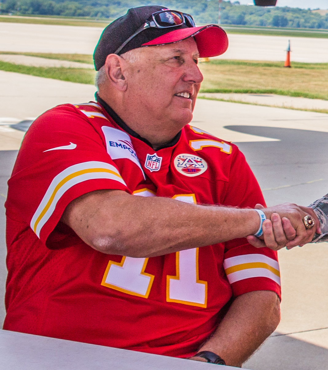 Tony Adams, retired Kansas City Chiefs NFL player (left) shakes hands with Chief Master Sgt. Harold Hutchinson, command chief master sergeant of North American Aerospace Defense Command and U.S. Northern Command, and Gary Spani, retired KC Chiefs player (second from right) shakes hands with Chief Master Sgt. Randy Miller, command chief master sergeant of the 139th Airlift Wing, Missouri Air National Guard, during a visit to Rosecrans Air National Guard Base in St. Joseph, Mo., August 15, 2017. The visit was part of a McDonald’s Restaurant Heart of America Co-Op 15-stop tour for local charities. Retired Kansas City Chiefs NFL players Tony Adams and Gary Spani were in attendance as well as current cheerleaders of the team. (U.S. Air National Guard photo by Staff Sgt. Patrick Evenson)